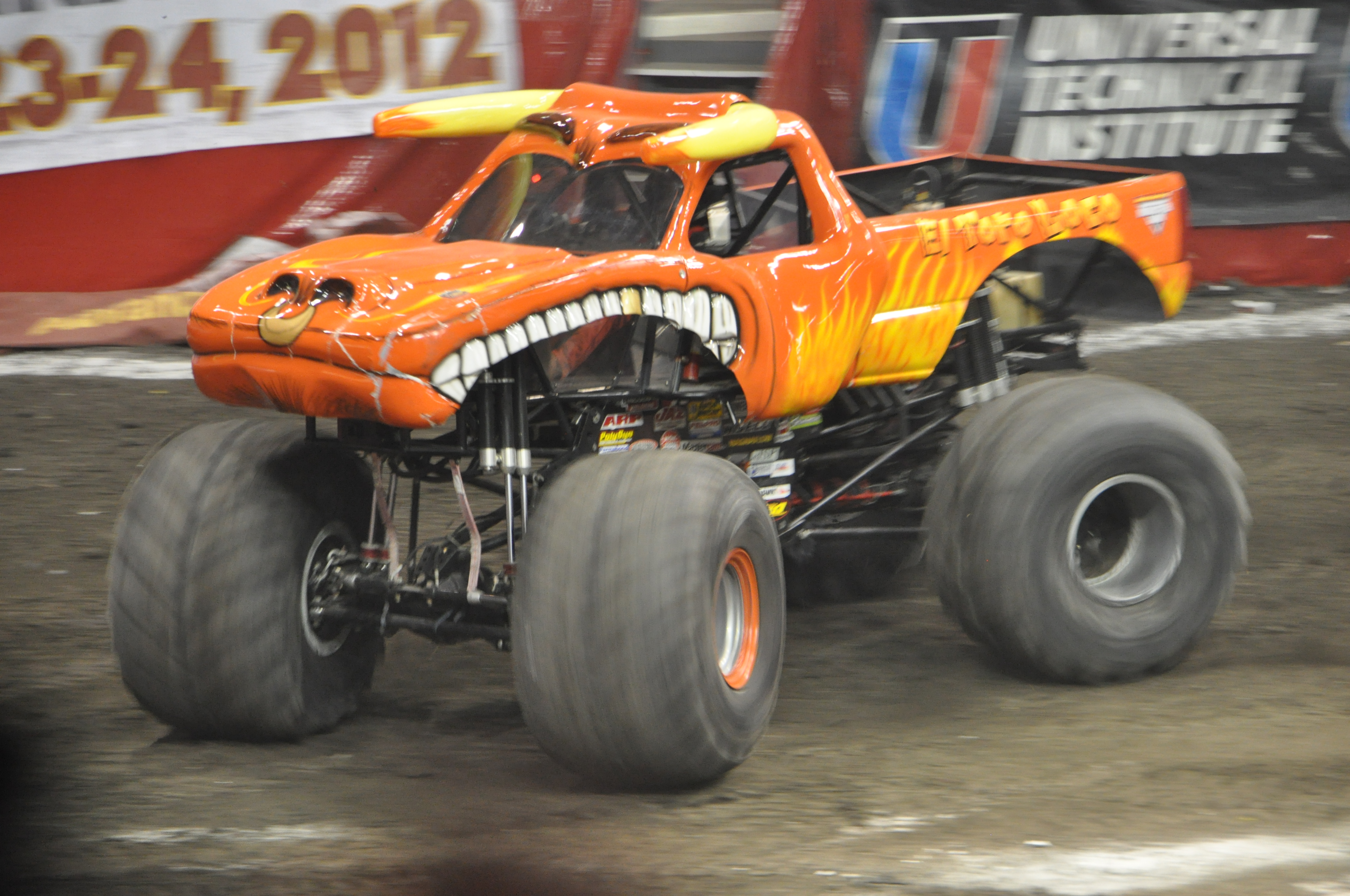 Monster Jam 2012 Allstate Arena Chicago